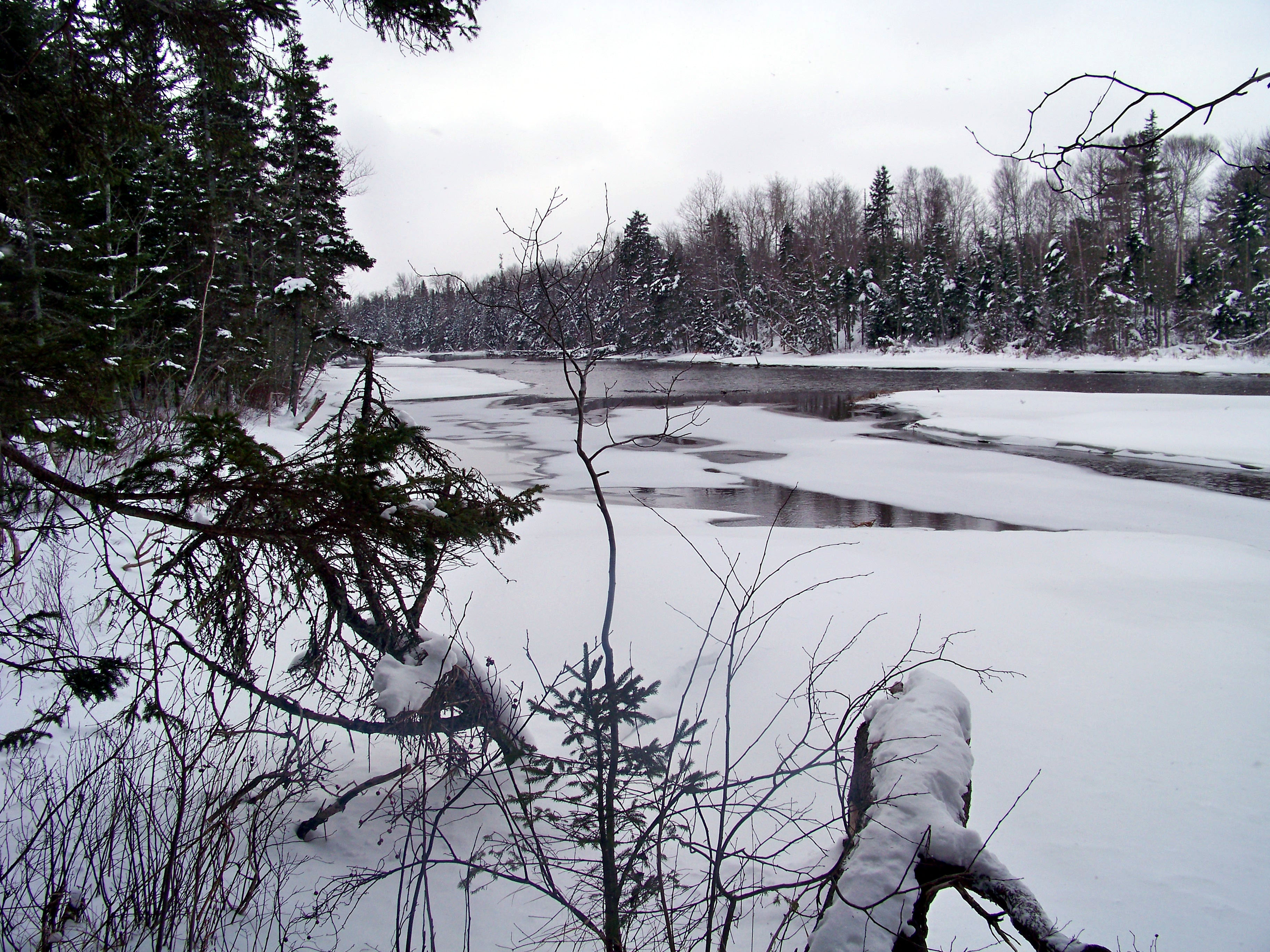 February 20, 2012